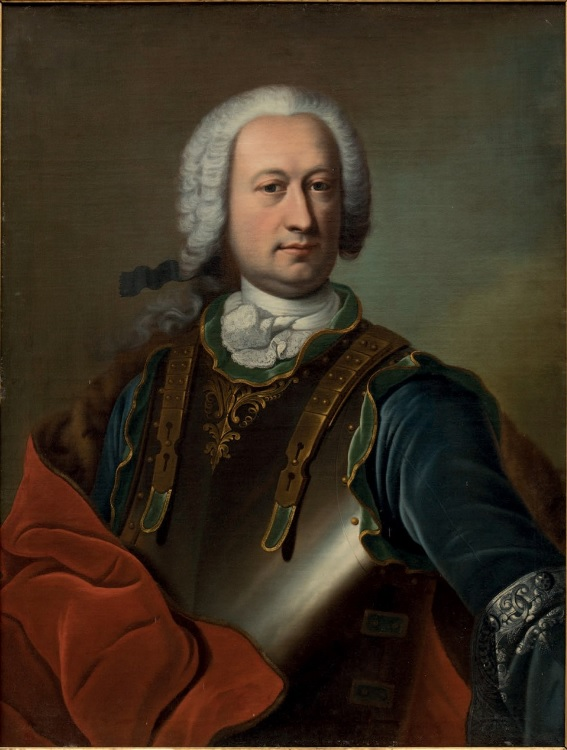 Jean-Baptiste François Joseph de Sade, father of Donatien Alphonse François de Sade (Marquis de Sade).